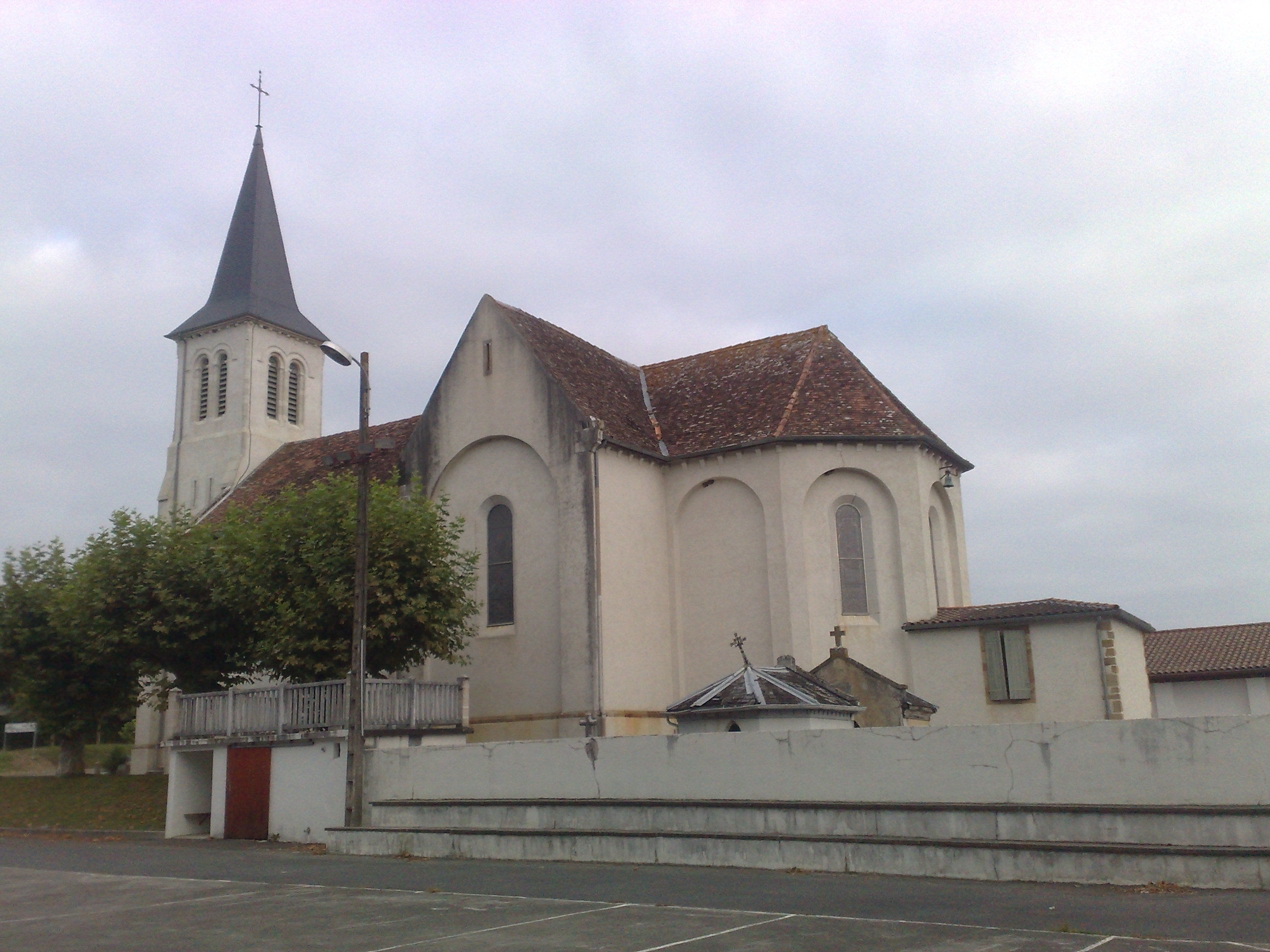 Church of Arboti (fr Arbouet) from the nearby pelota court, Arboti-Zohota, Lower Navarre, Basque Country.